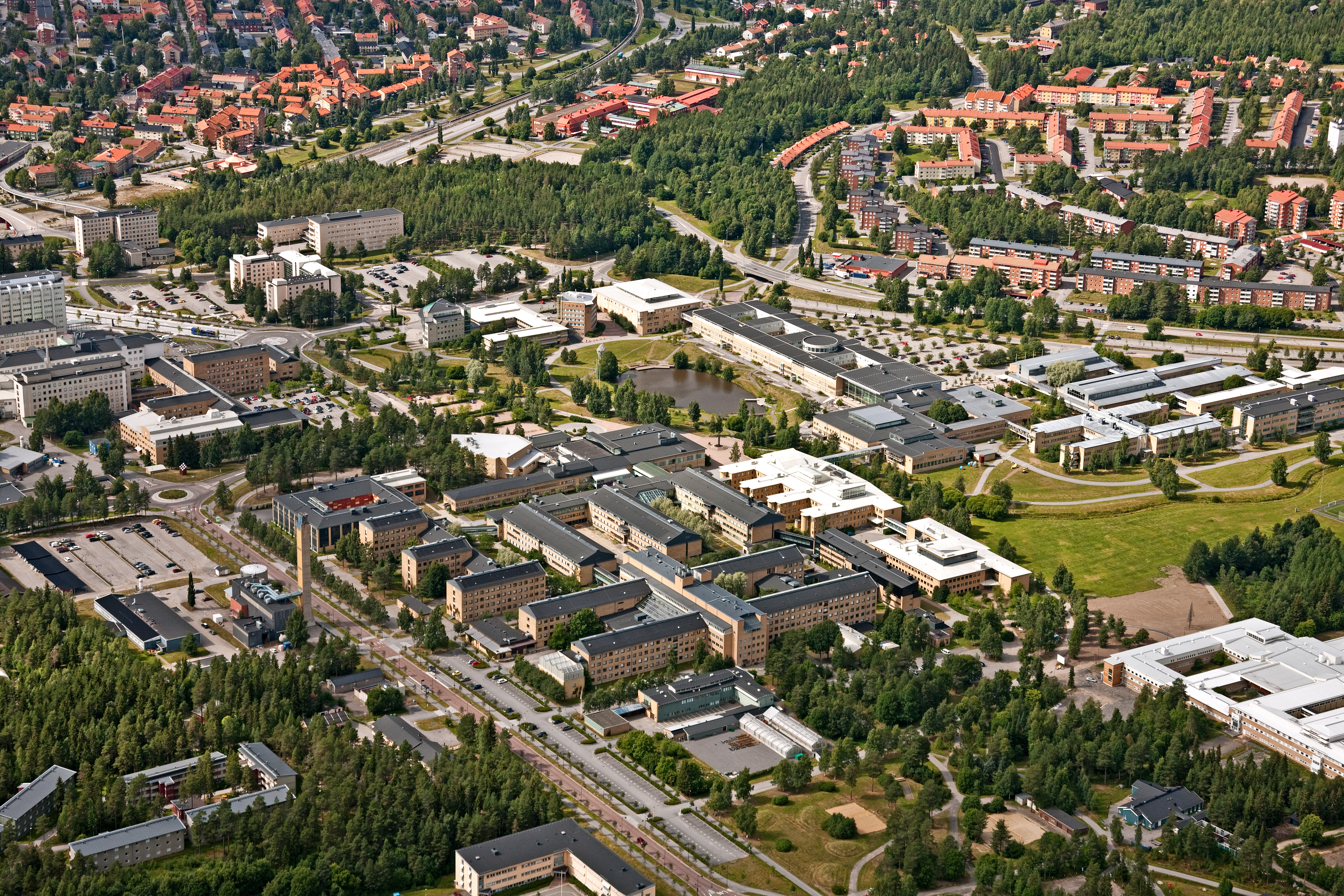 Aerial view of Umeå University Campus